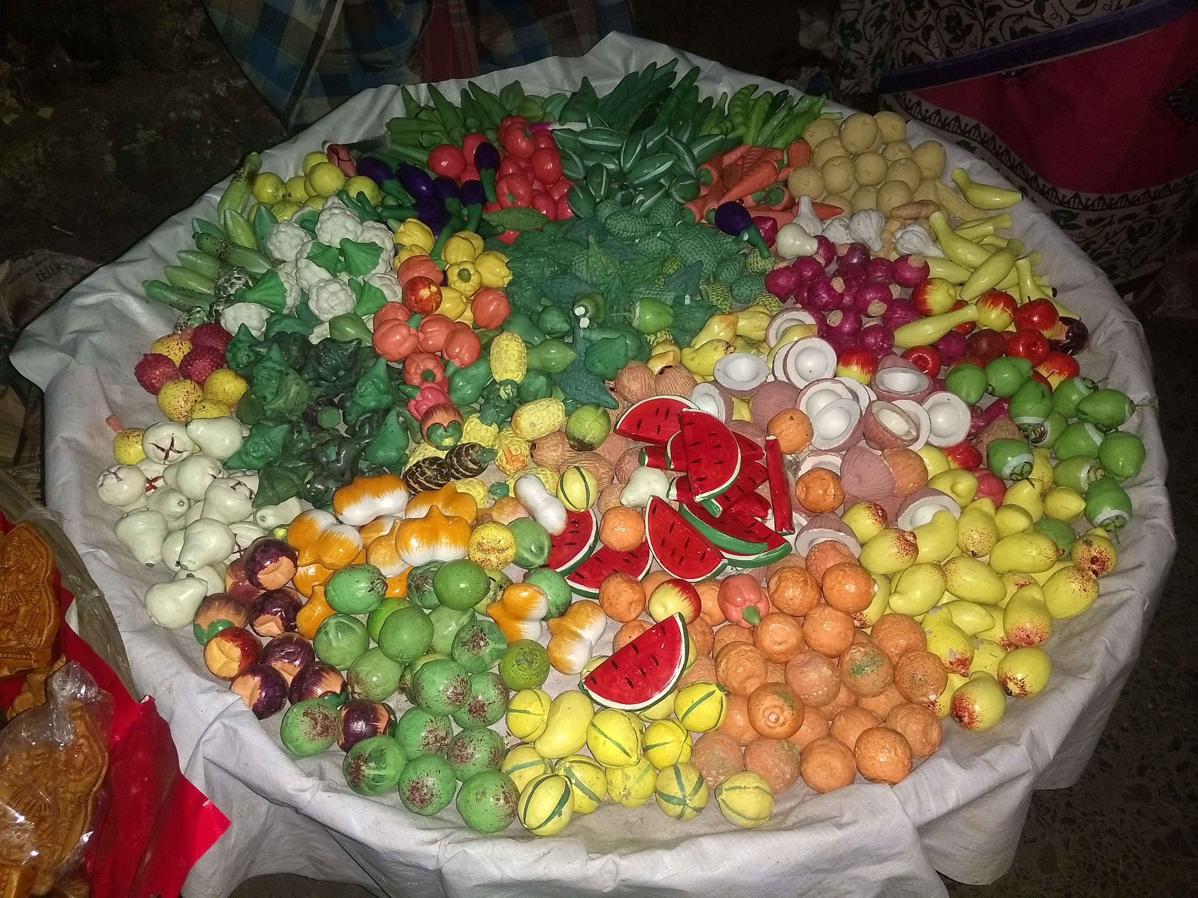 Clay made vegetables